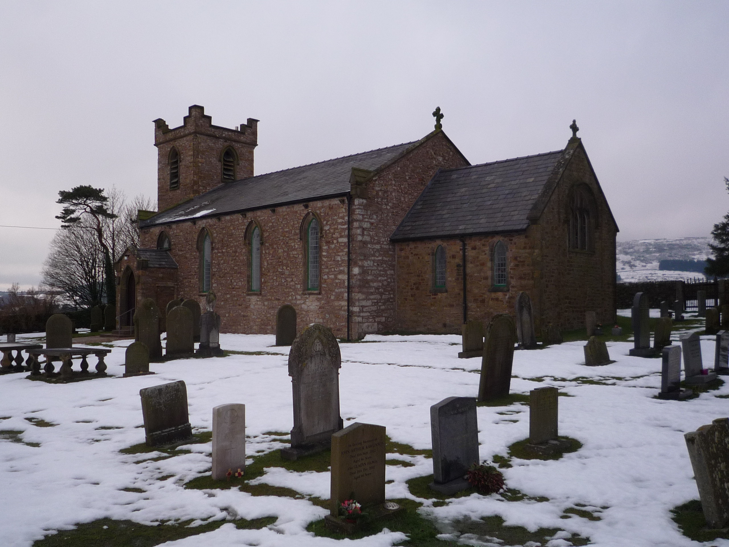 St Eadmer's parish church at grid reference SD 573 455 in Bleasdale, Lancashire, England. Probably the only church with this dedication. Description at .